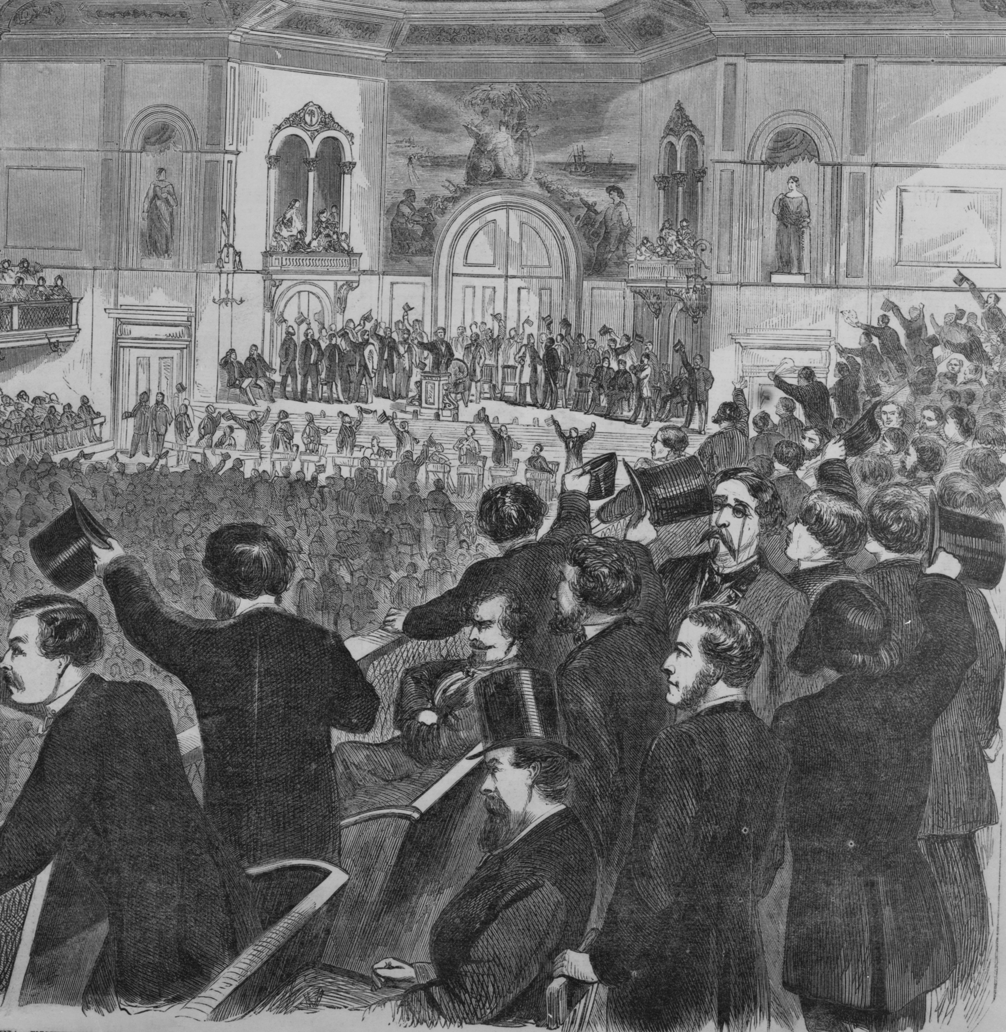 Wood engraving of the 1960 Democratic National Convention in Charleston "The Democratic convention at Charleston, South Carolina - Interior of the hall of the South Carolina Institute in Meeting Street the [...]"